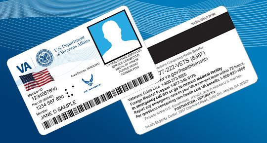 vhic_header_m